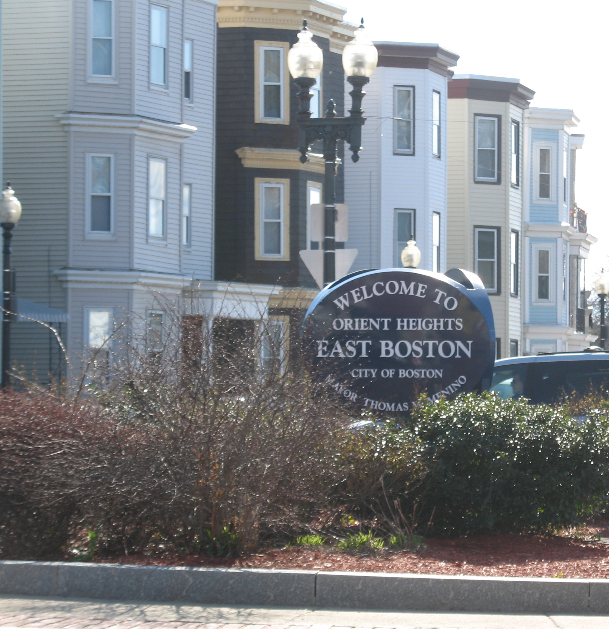 Orient Heights, East Boston